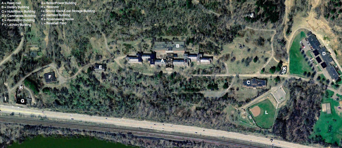 An aerial view of Dixmont State Hospital in 2004 one year before it's demolition.